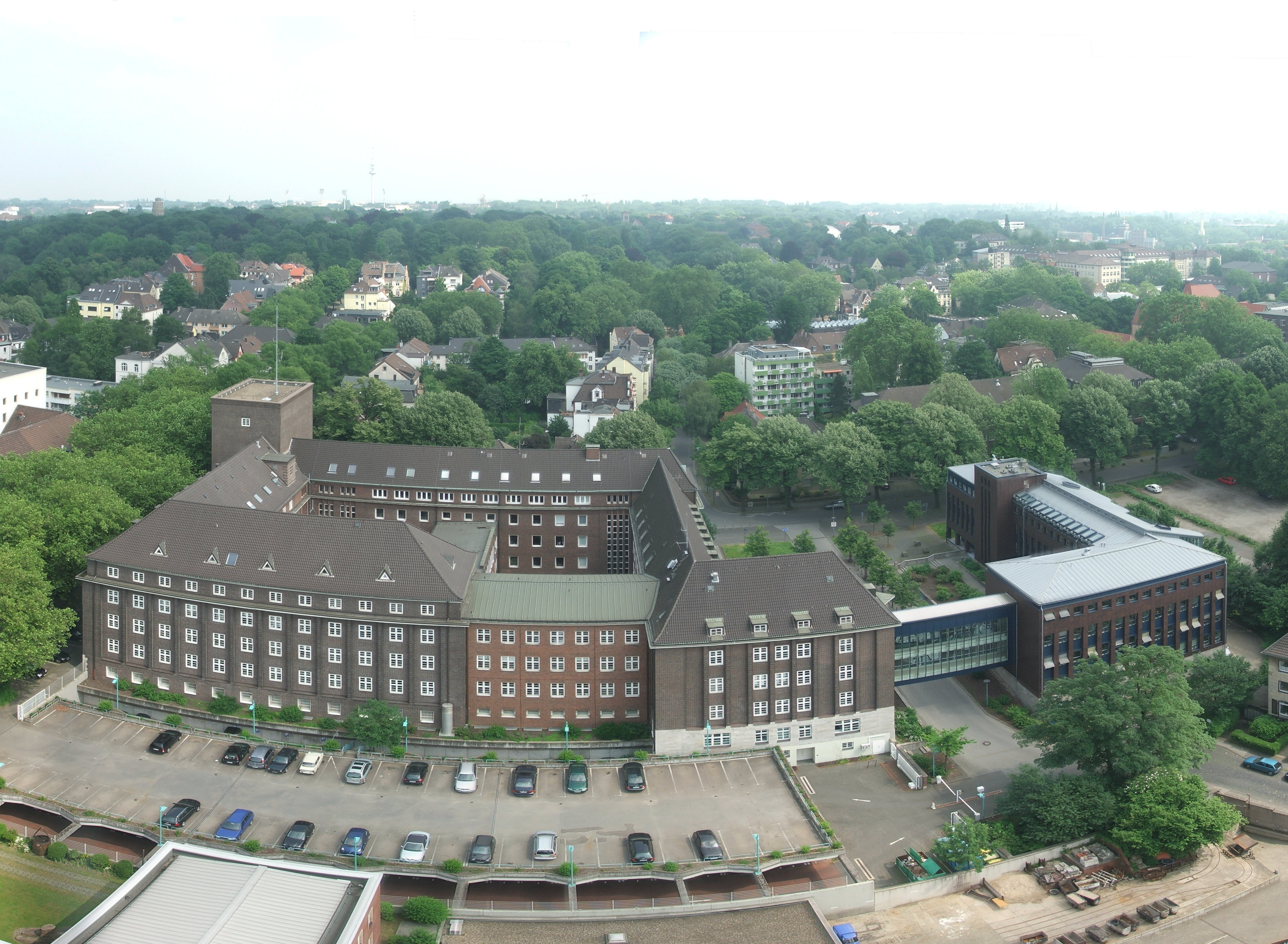 Polizeipräsidium Bochum